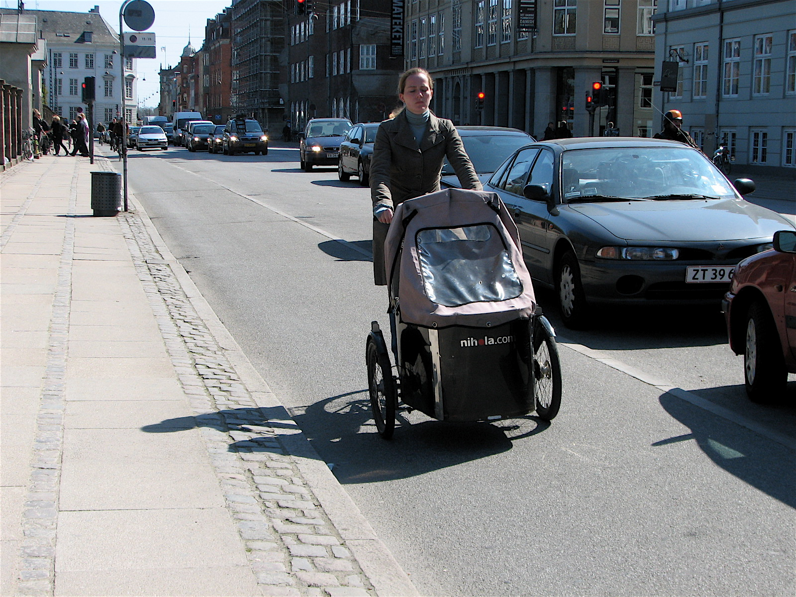 Typical Copenhagen bicycle lane design running next to the sidewalk seperated by a curb and parked cars.